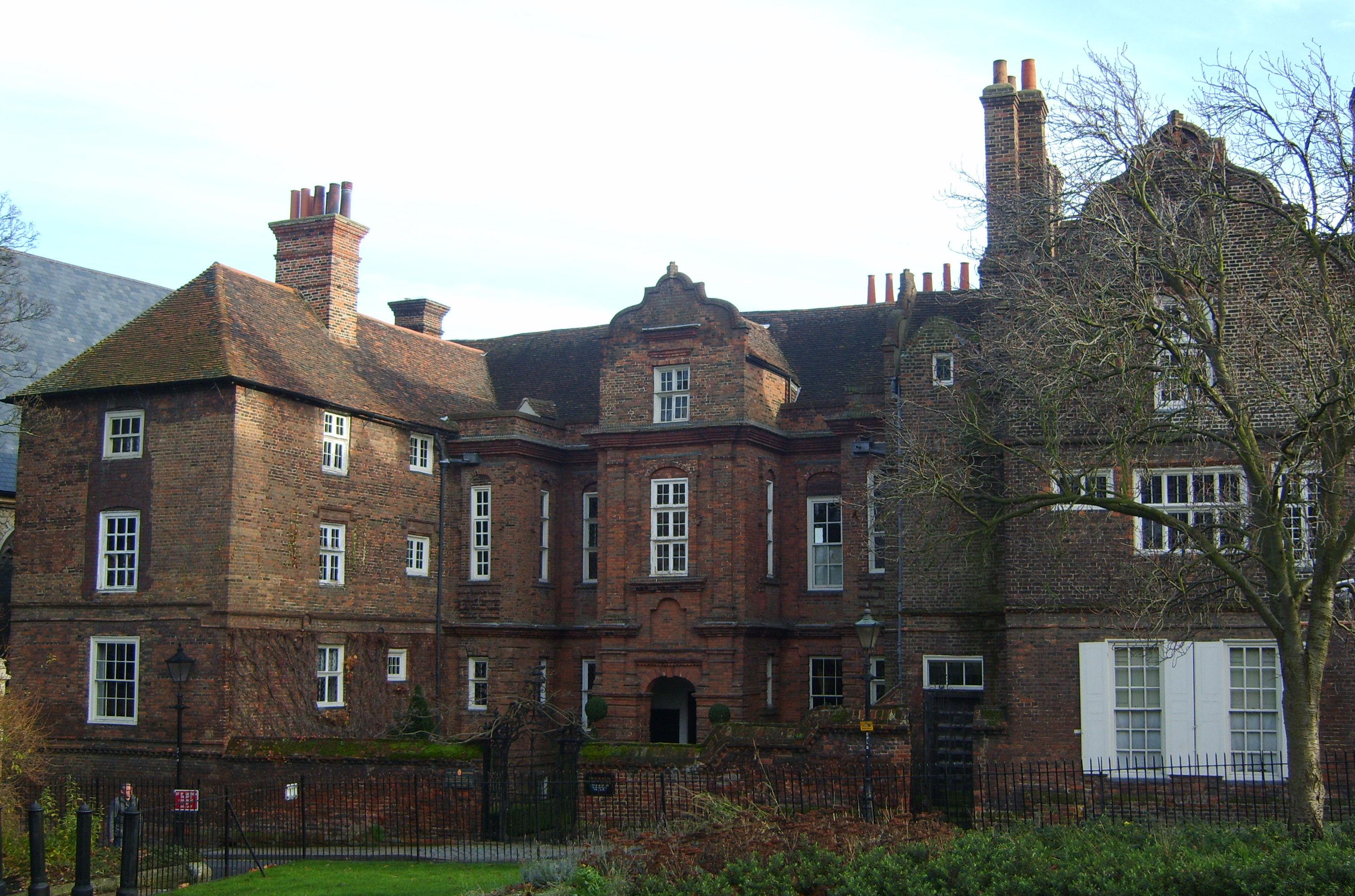 Restoration House, an Elizabethan manor house in Rochester, England.